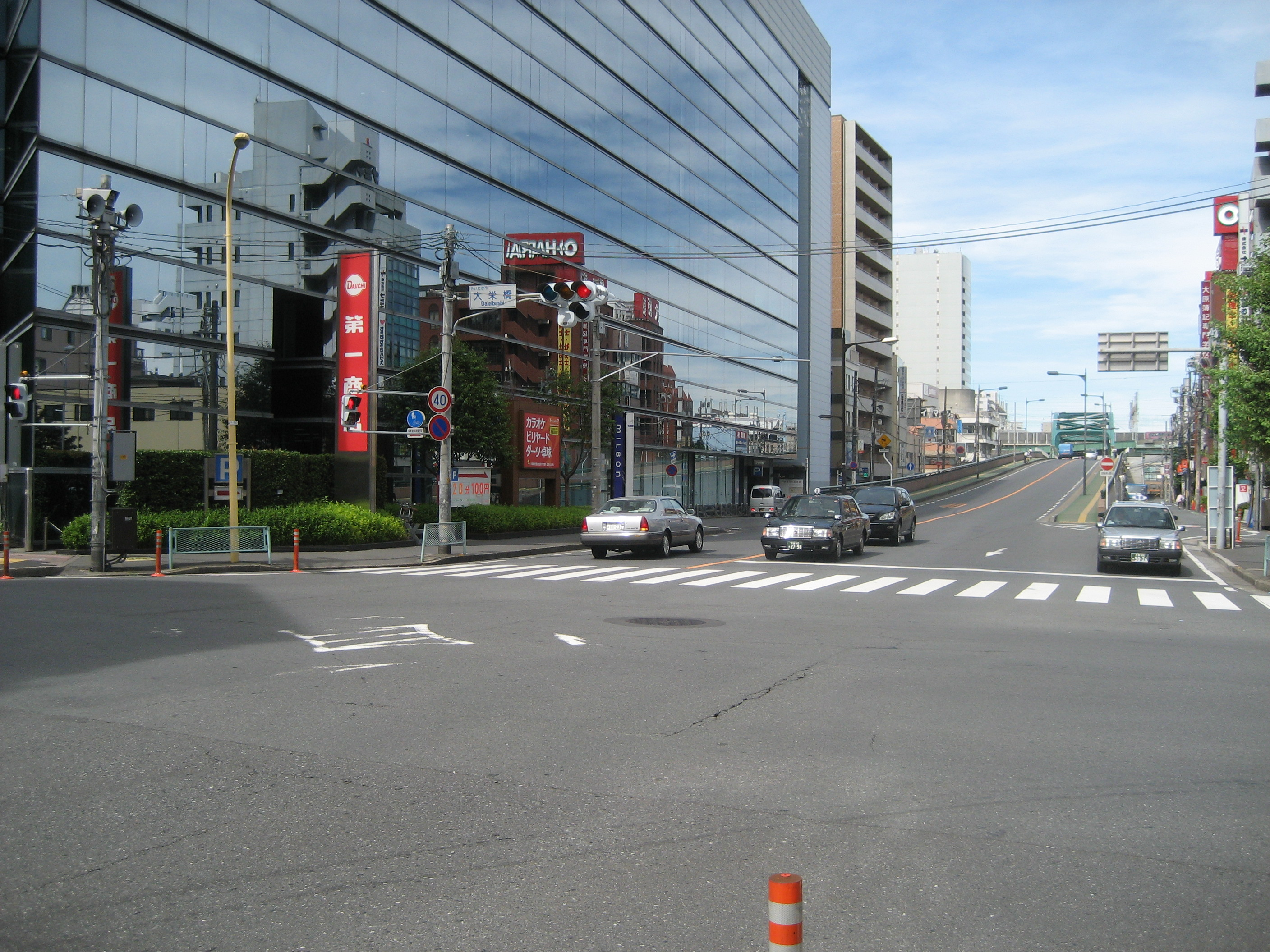 The Saitama Prefectural Road Route 2 at the Taieibashi Intersection in Omiya-ku, Saitama City